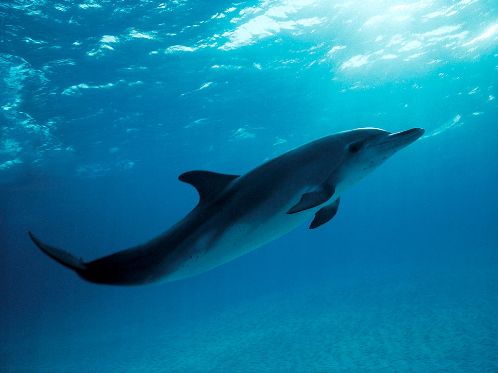 Juvenile Altantic spotted dolphin (Stenella frontalis)